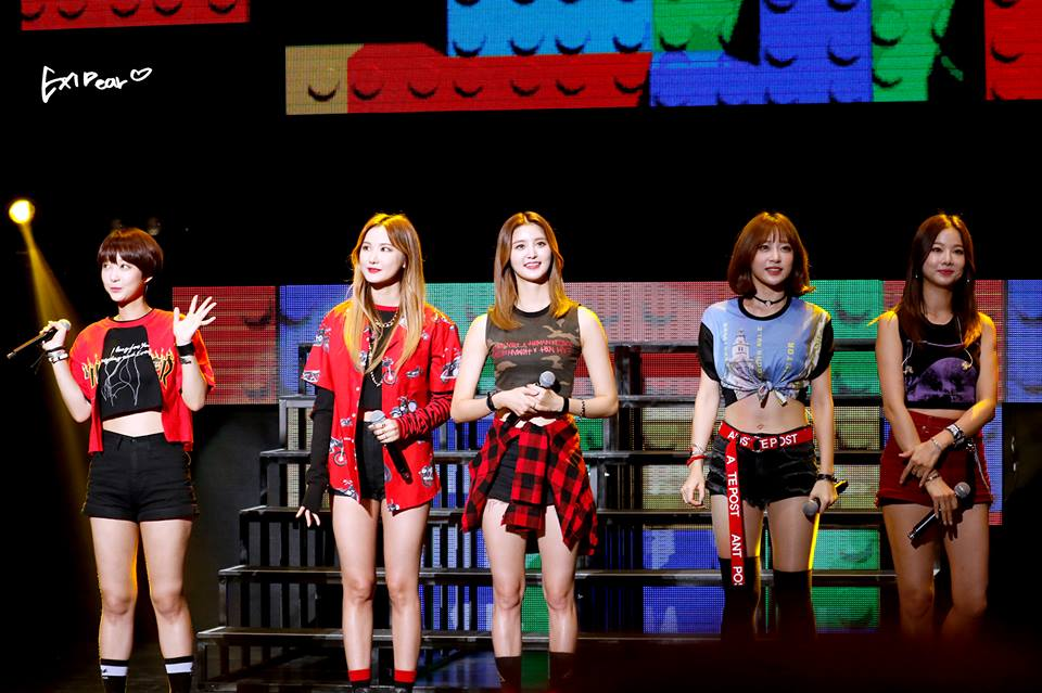 EXID at 2016 LEGGO World in Taiwan